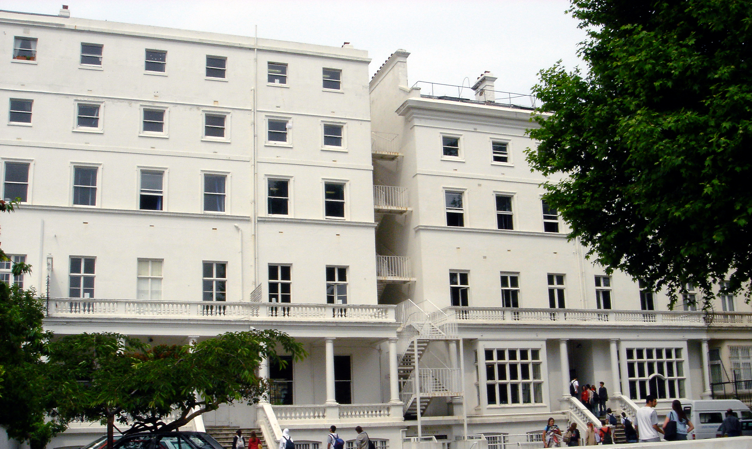 One of the buildings of the Lycée Français Charles de Gaulle in London. The building pictured is the number 27-29 Cromwell Road.